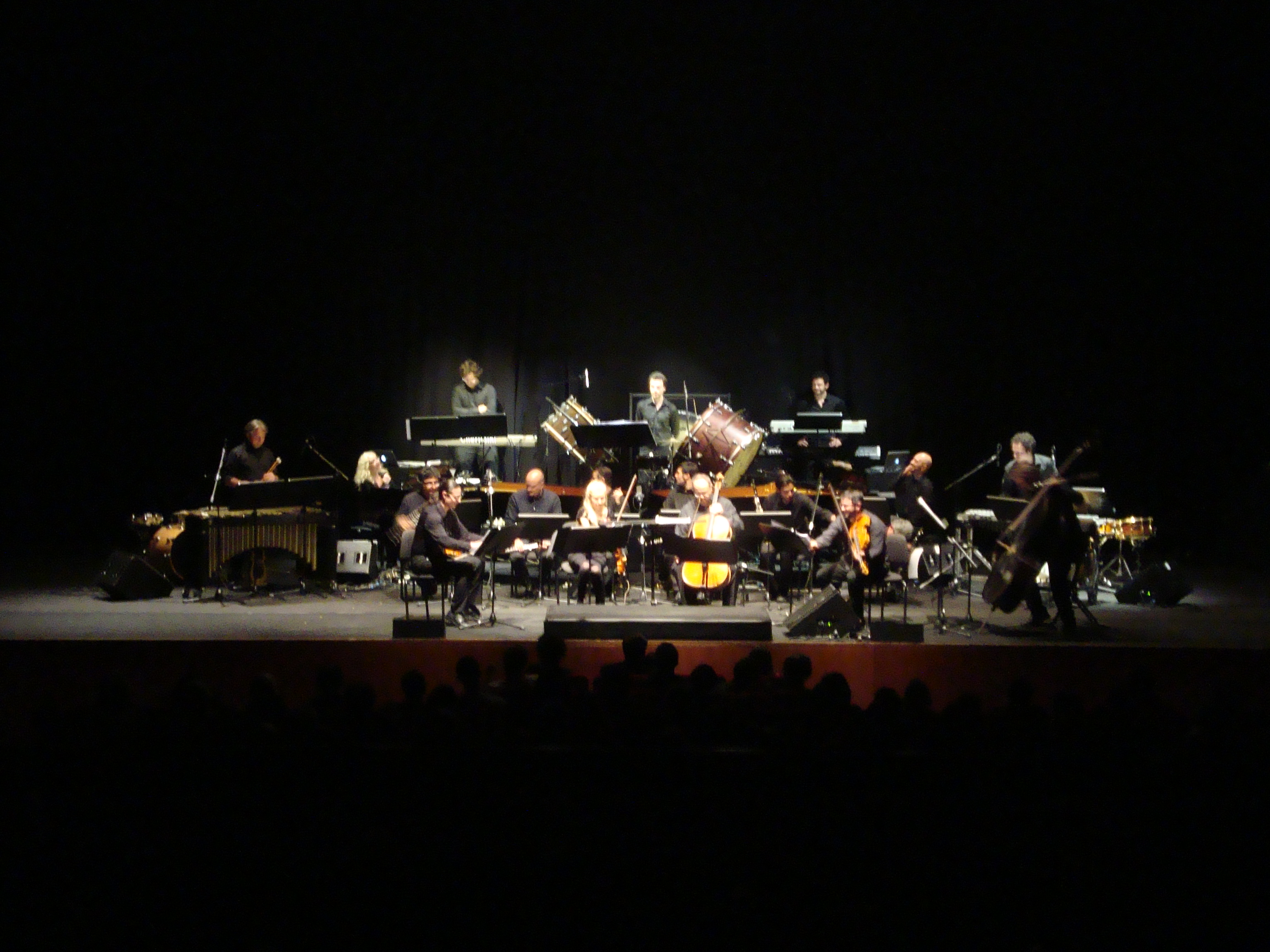 Execution by the Contemporanea Ensemble directed by Tonino Battista of City Life by Steve Reich at the Parco della Musica in Rome